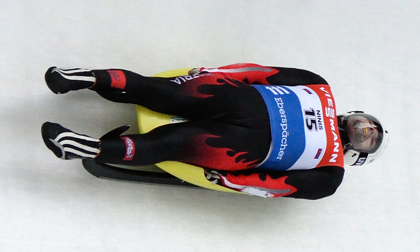 Luge world cup race season 2014/15 in Altenberg/Germany, 19th to 22nd Februar 2015. Day 1: training.